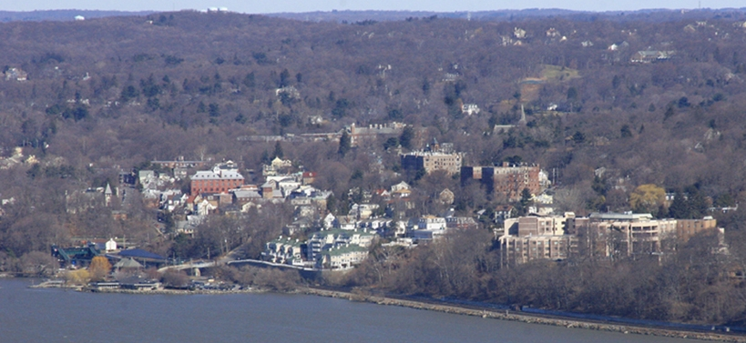 Town center of Dobbs Ferry, New York, from the west. This image was made by Ryssby.